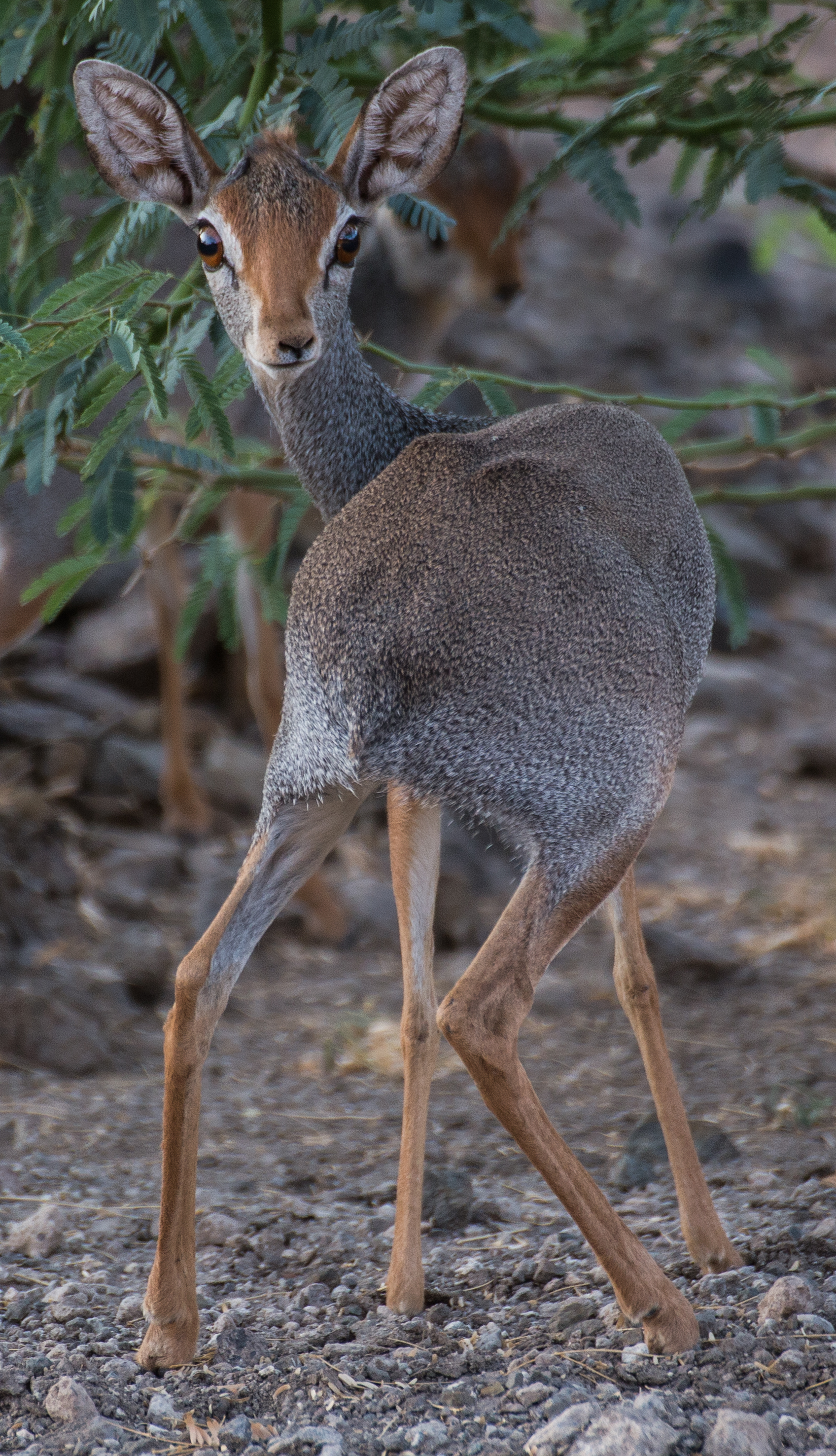 Salt's dik-dik